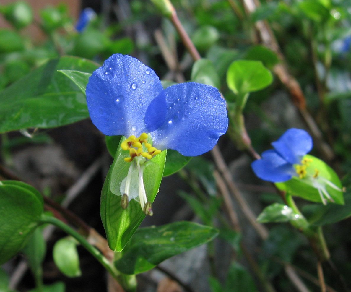 Commelina communis with foliage and stalks in background. The blue petals are 8-10 mm long.